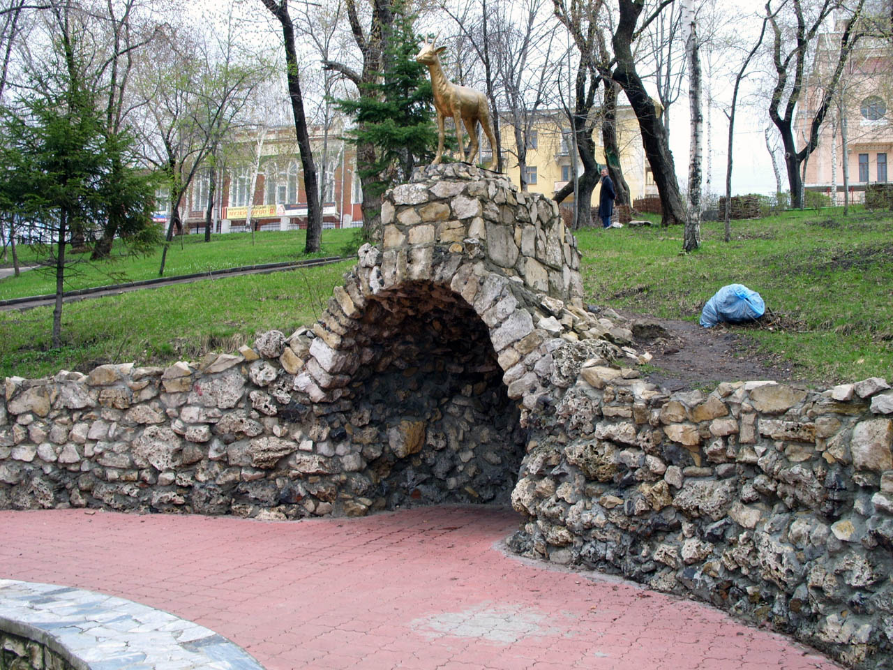 Strukovsky Sad in Samara, Russia